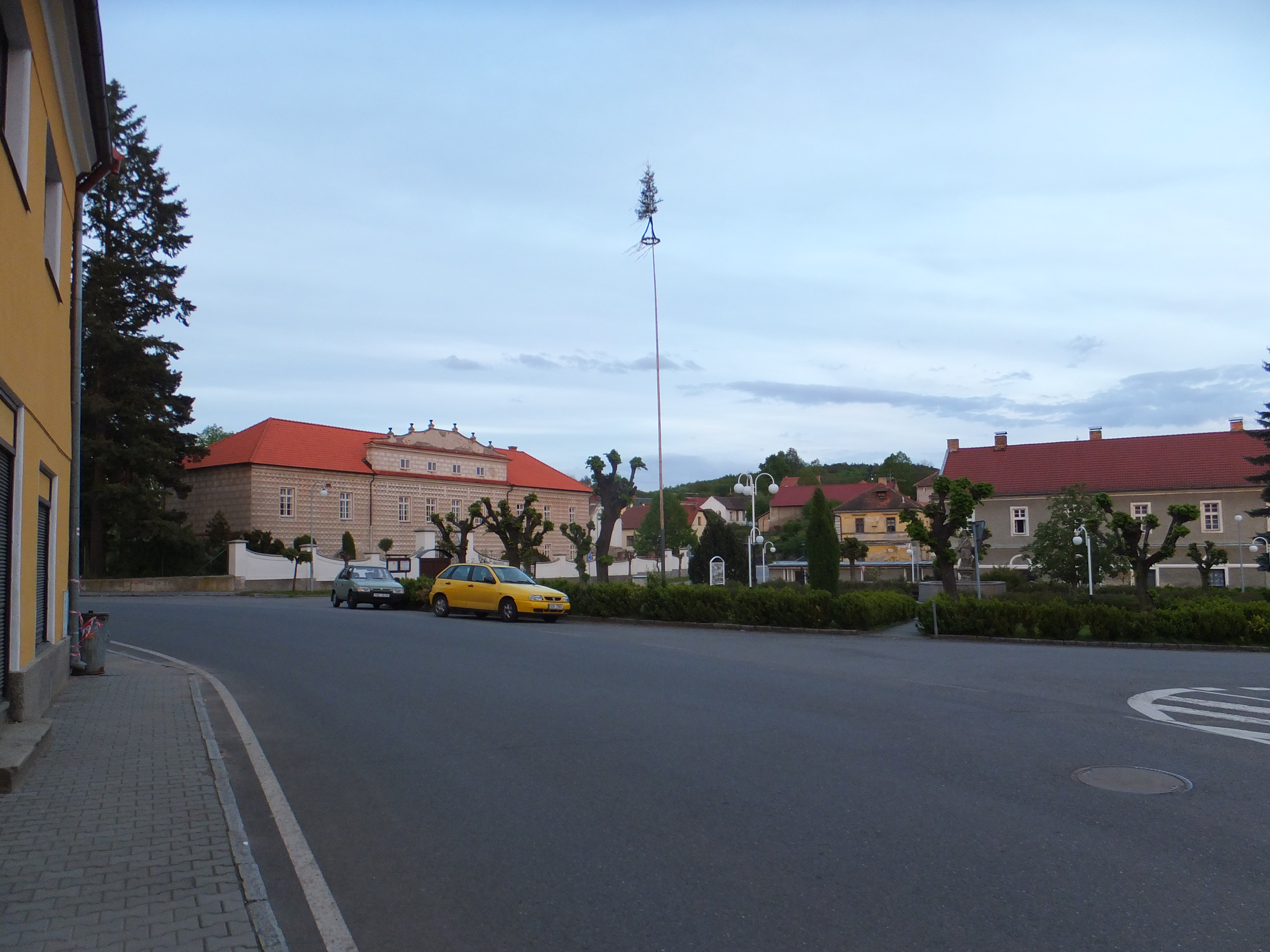 The south-eastern corner of the square in Kosova Hora